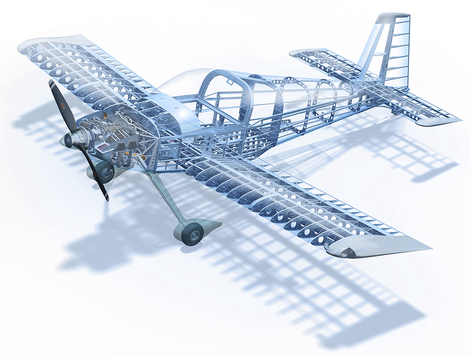 RV-14 Cutaway View